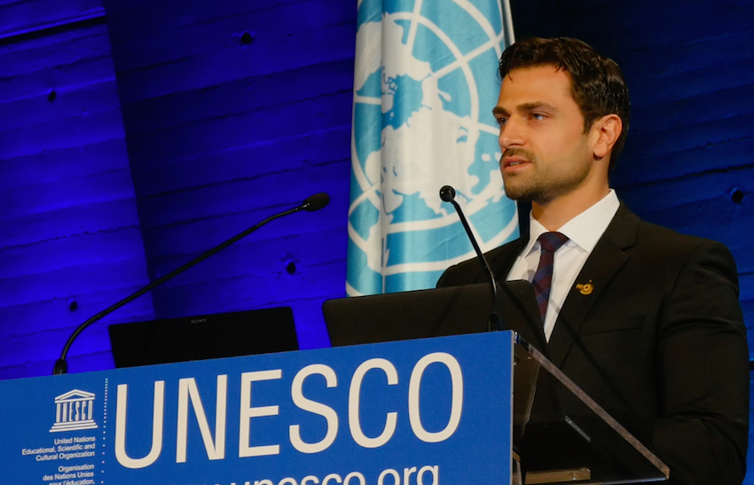 Ahmed Salim Delivering Opening Remarks for the United Nations proclaimed International Year of Light 2015 (UNESCO Headquarters, Paris, 19th January 2015)